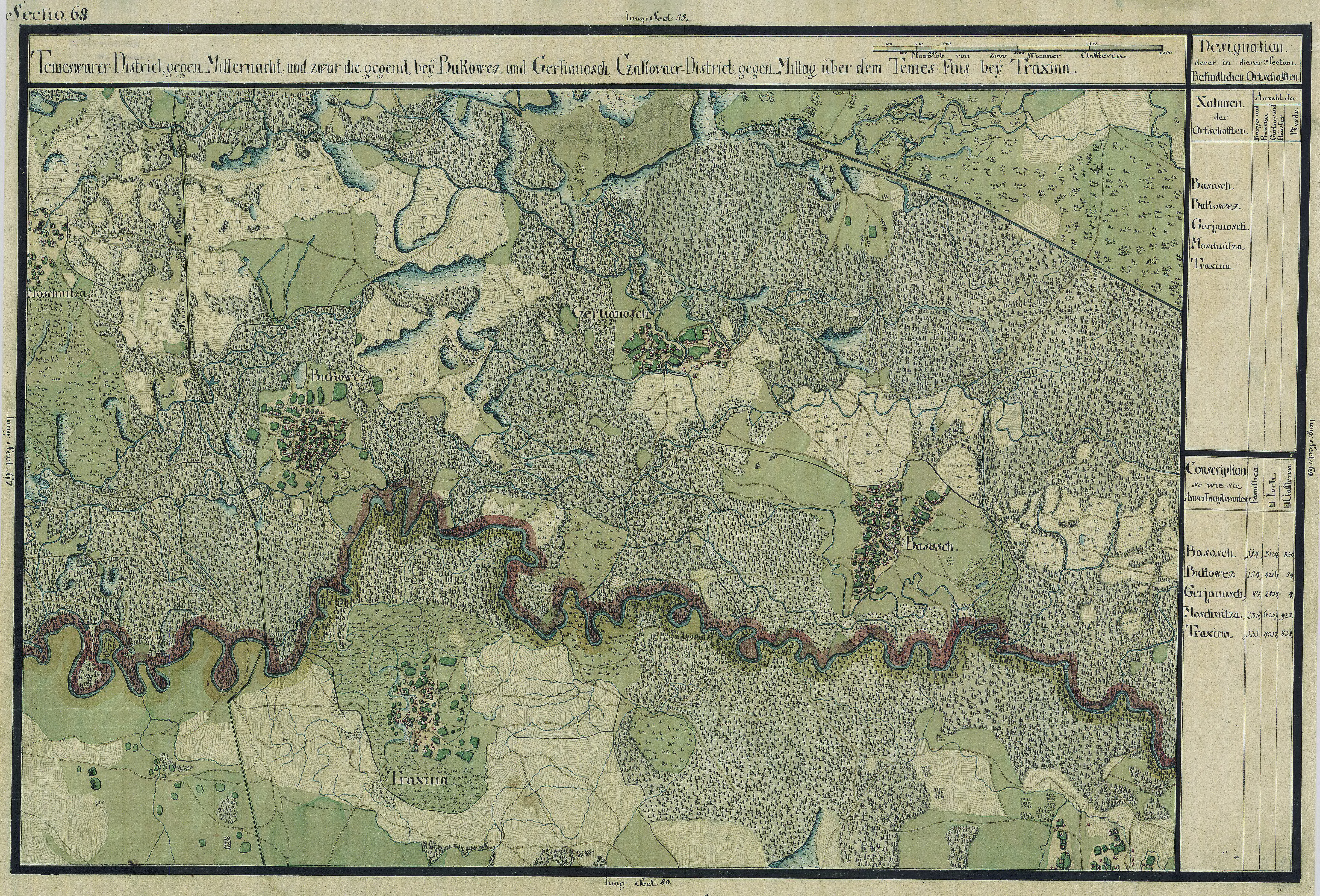 The Banat region in the cadastral maps: Josephinische Landesaufnahme, 1769-72. Josephinische Landaufnahme pg068